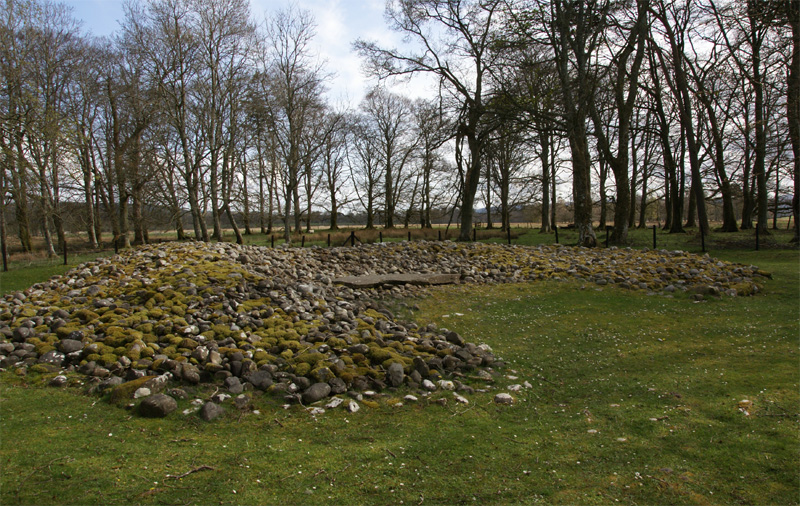 Ri Cruin Cairn, Kilmartin Glen, Scotland